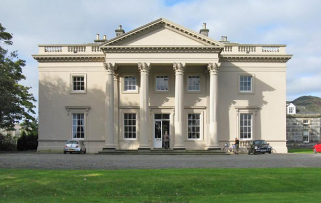 Duddingston House, Edinburgh, Scotland